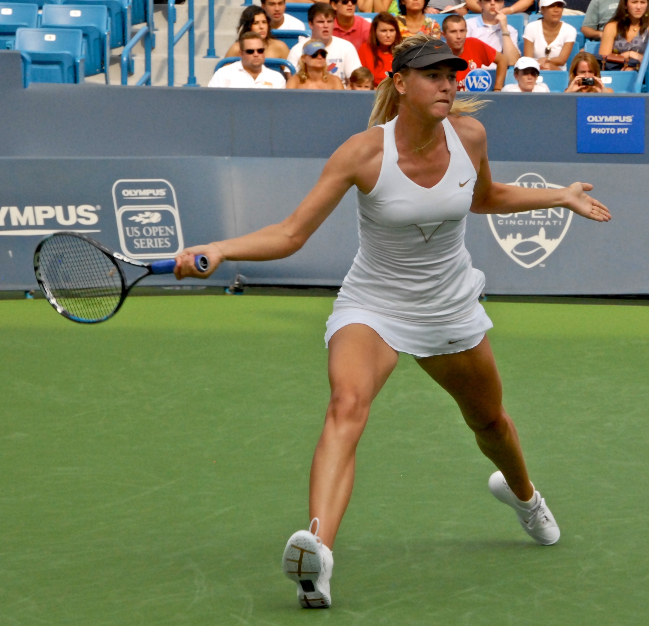 Maria Sharapova at the 2011 Western & Southern Open, August 21, 2011